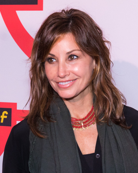 Gina Gershon at the screening of Wes Anderson's 'Isle of Dogs' at the Metropolitan Museum of Art in New York on March 20, 2018. Companion book 'The Wes Anderson Collection: Isle of Dogs' from Abrams arrives this May.